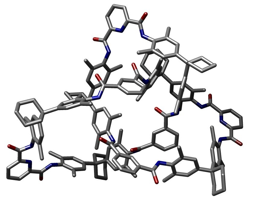 This is a picture generated from crystal structure data reported by Oliver Safarowsky, Martin Nieger, Roland Fröhlich, Fritz Vögtle in Angewandte Chemie International Edition, Year 2000, Volume 39, Issue 9, Pages 1616-1618. It shows a molecular trefoil knot. It was made by myself and is free to be used by all.